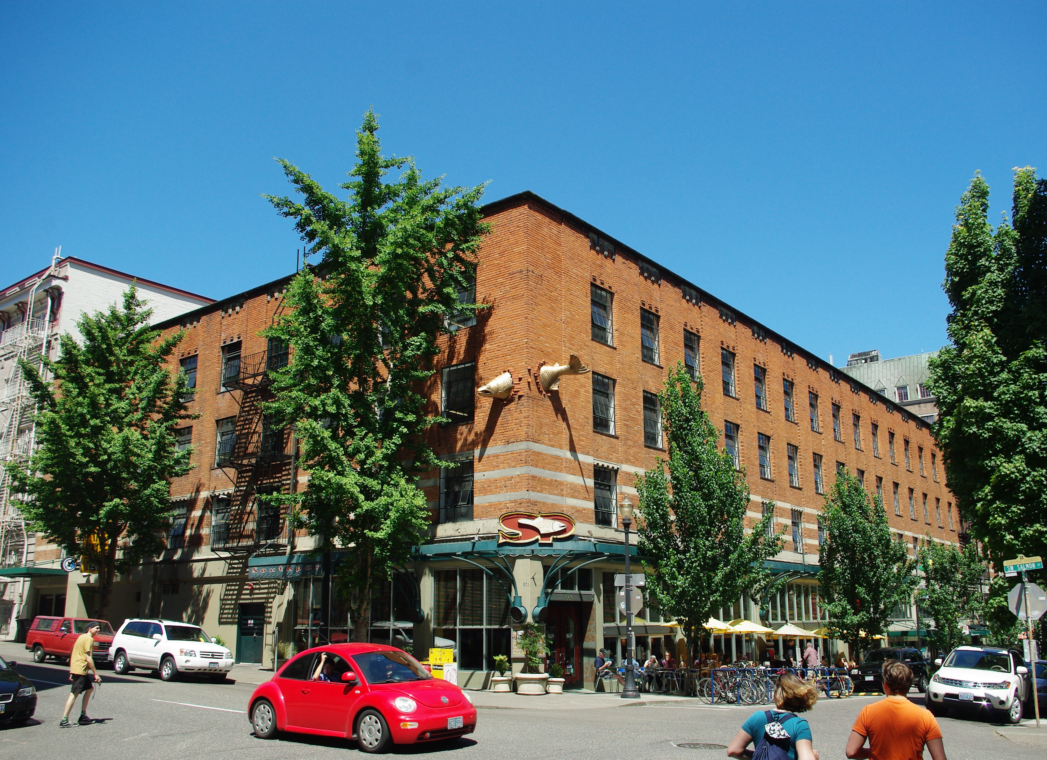 Southpark Seafood Grill in Downtown Portland.